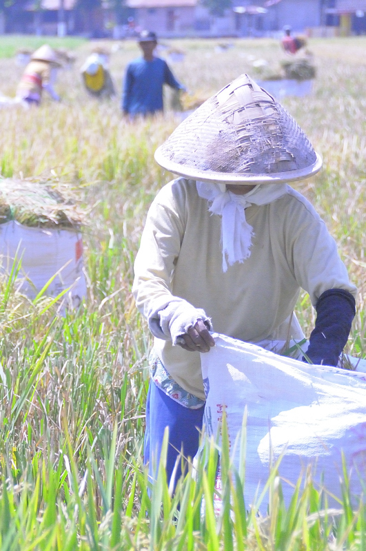 Farmer's harvest time in paddy field, Indonesia